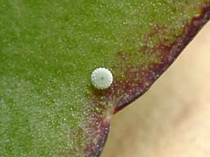 This image shows an egg laid on Kalanchoe(it's larval host plant) by Red Pierrot, Talicada nyseus, a Lycaenid (Blues) butterfly found in India. This photo was snapped ny Nandan Kalbag . See his website at This photo has been donated by Mr Nandan Kalbag to Wikimedia Commons for use in the Indian Butterfly knowledge base in Wikipedia, and has been uploaded by User:Nature Loader with his specific permission.